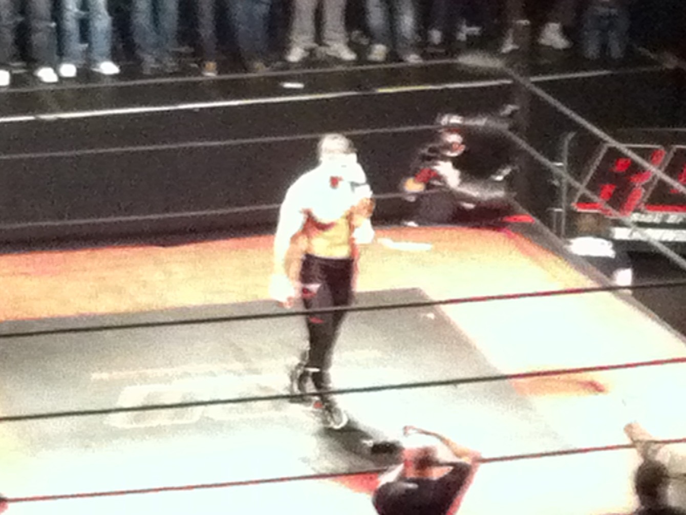 Eddie Edwards as the Ring of Honor World Champion at an ROH show in Atlanta GA on April 1, 2011.